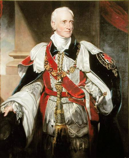 Philip Yorke, 3rd Earl of Hardwicke (1757-1834)